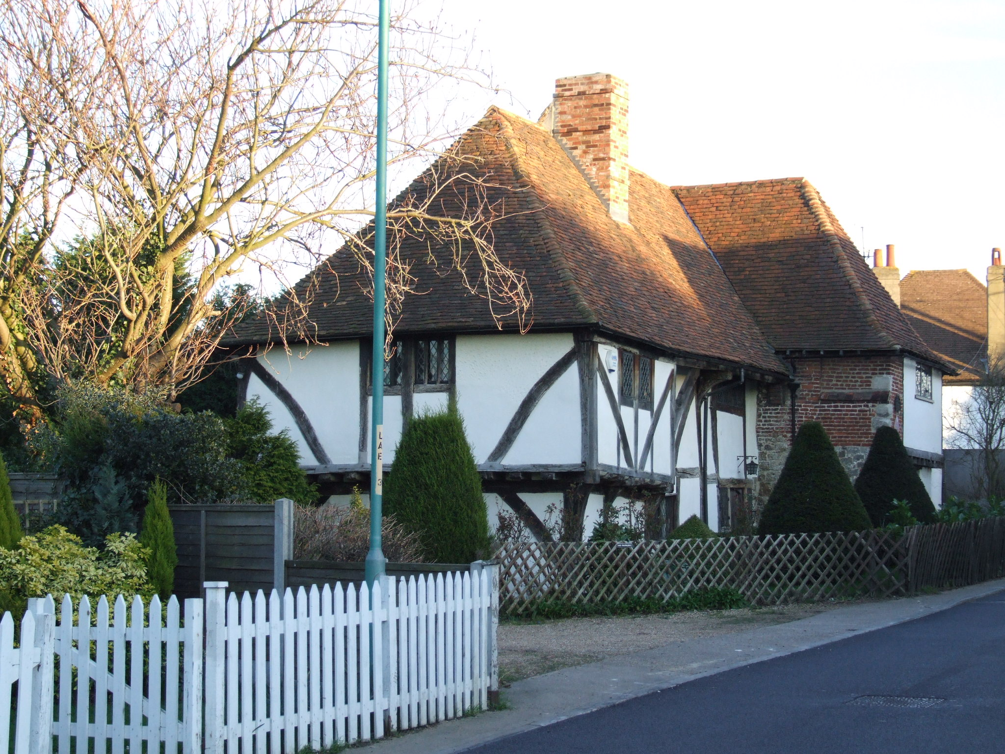 Lower Rainham, Kent by the Three Mariners.